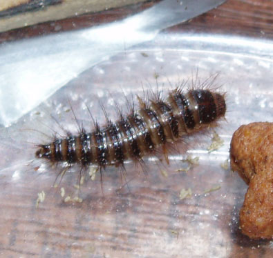 A larder beetle grub, about 1cm long.